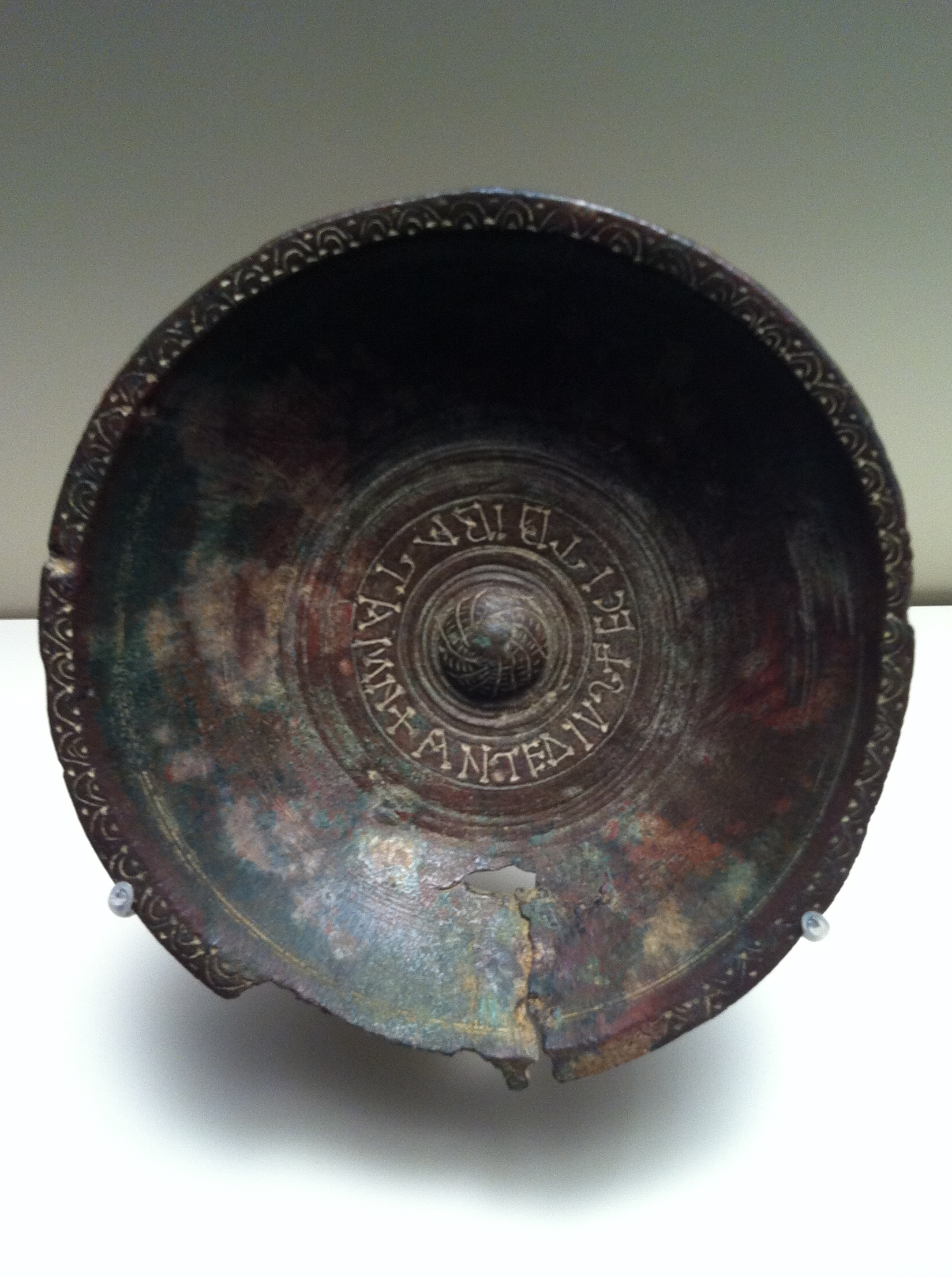 Reopening of the Romanesque collection of MNAC, Museu Nacional d'Art de Catalunya, in Barcelona